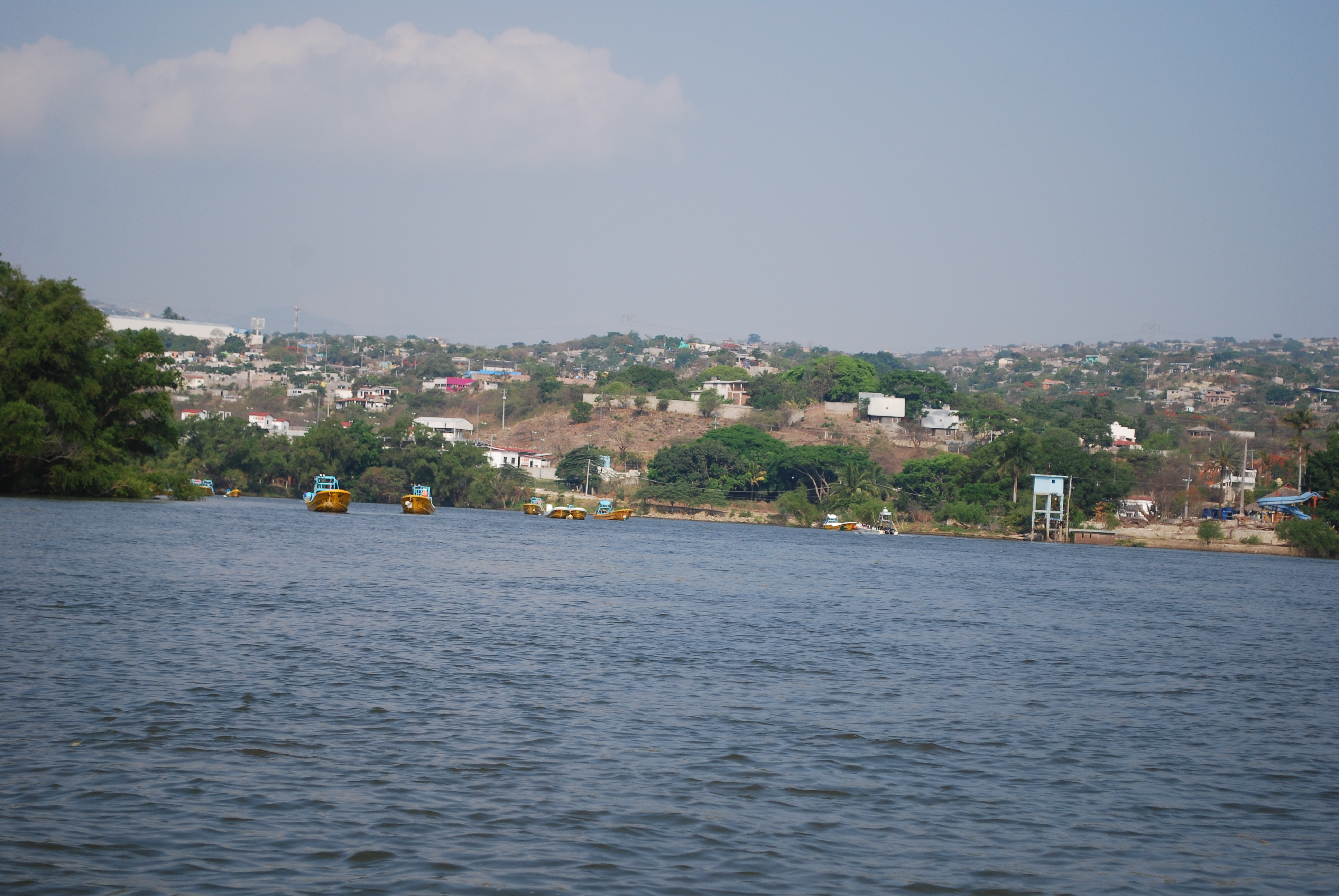 Grijalva River in Tuxtla Gutierrez, Chiapas, Mexico